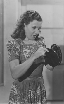 Ada Mendez- actriz